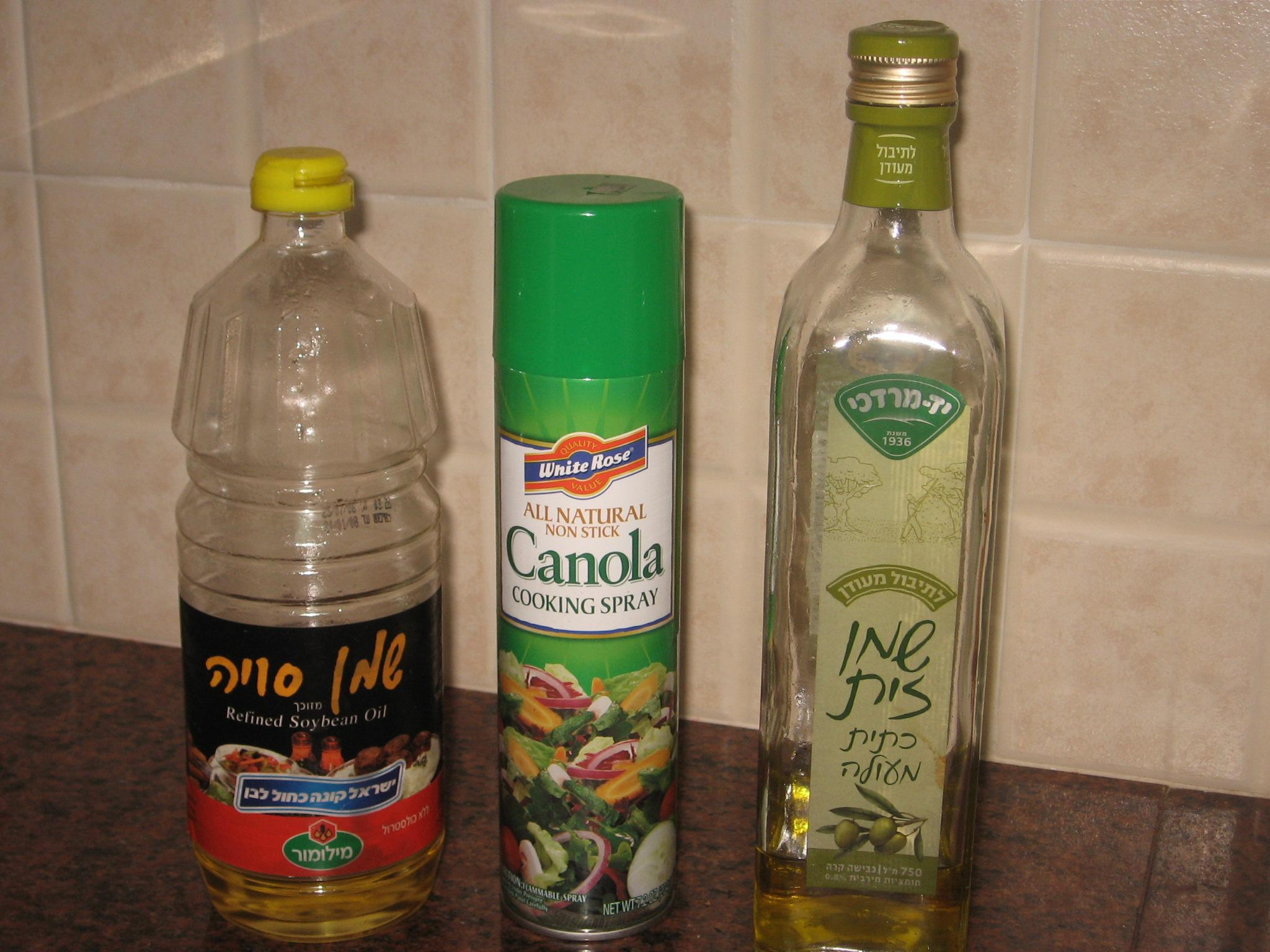 Oil from my kitchen (from left to right): soybean oil, canola cooking spray, olive oil.